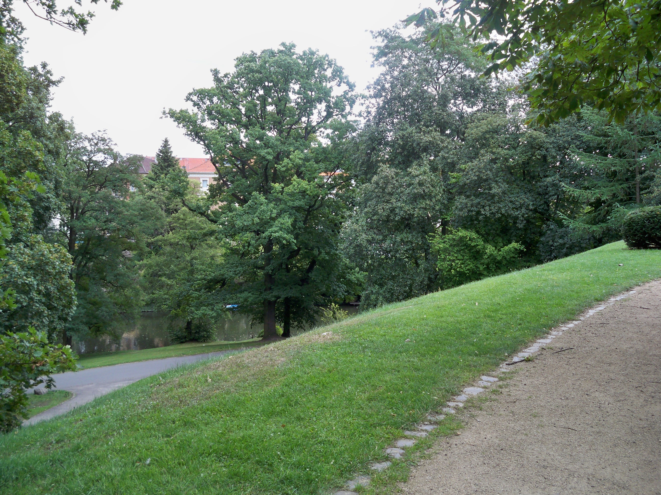 Brunswick, Germany, Theaterpark, viwew towards Oker river (Umflutgraben, i.e. man-made river bed)